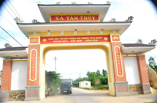 very good